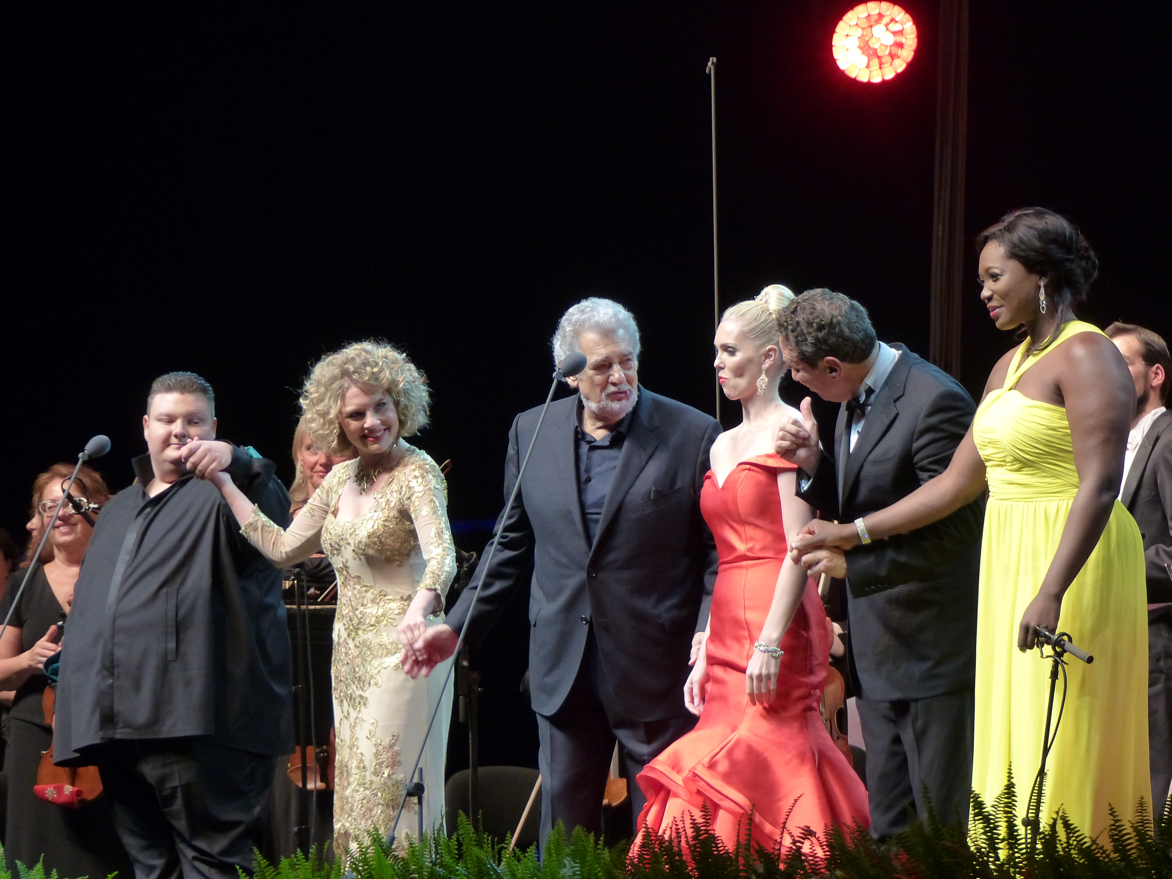 Plácido Domingo, Pasztircsák Polina, Angel Blue, Micaëla Oeste, Váradi Gyula, Eugene Kohn, . Taken on the 10th of August, 2016. Papp László Budapest Aréna, Budapest. Venue in hu.